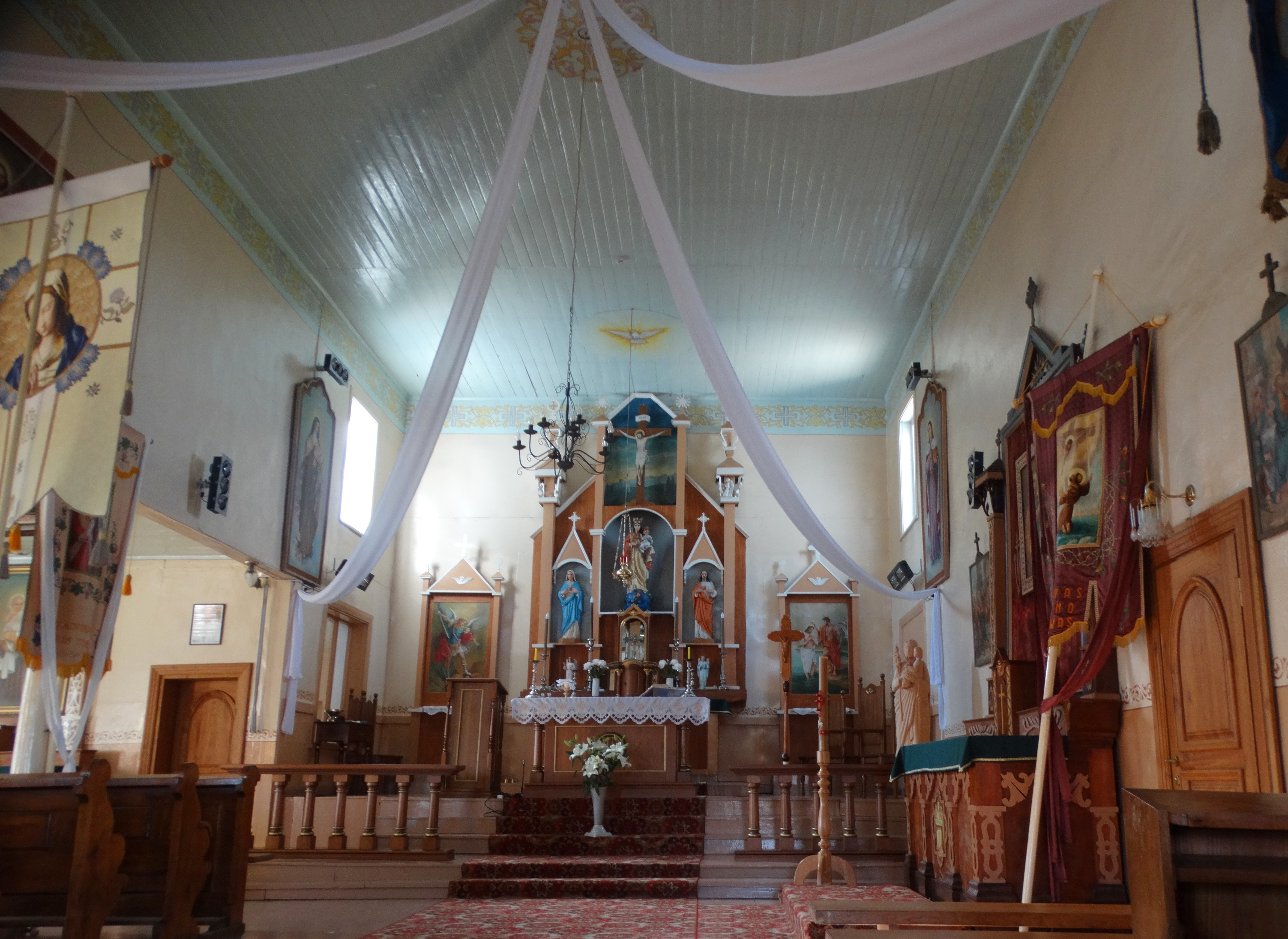 Church (new) interior, Kulva, Jonava district, Lithuania